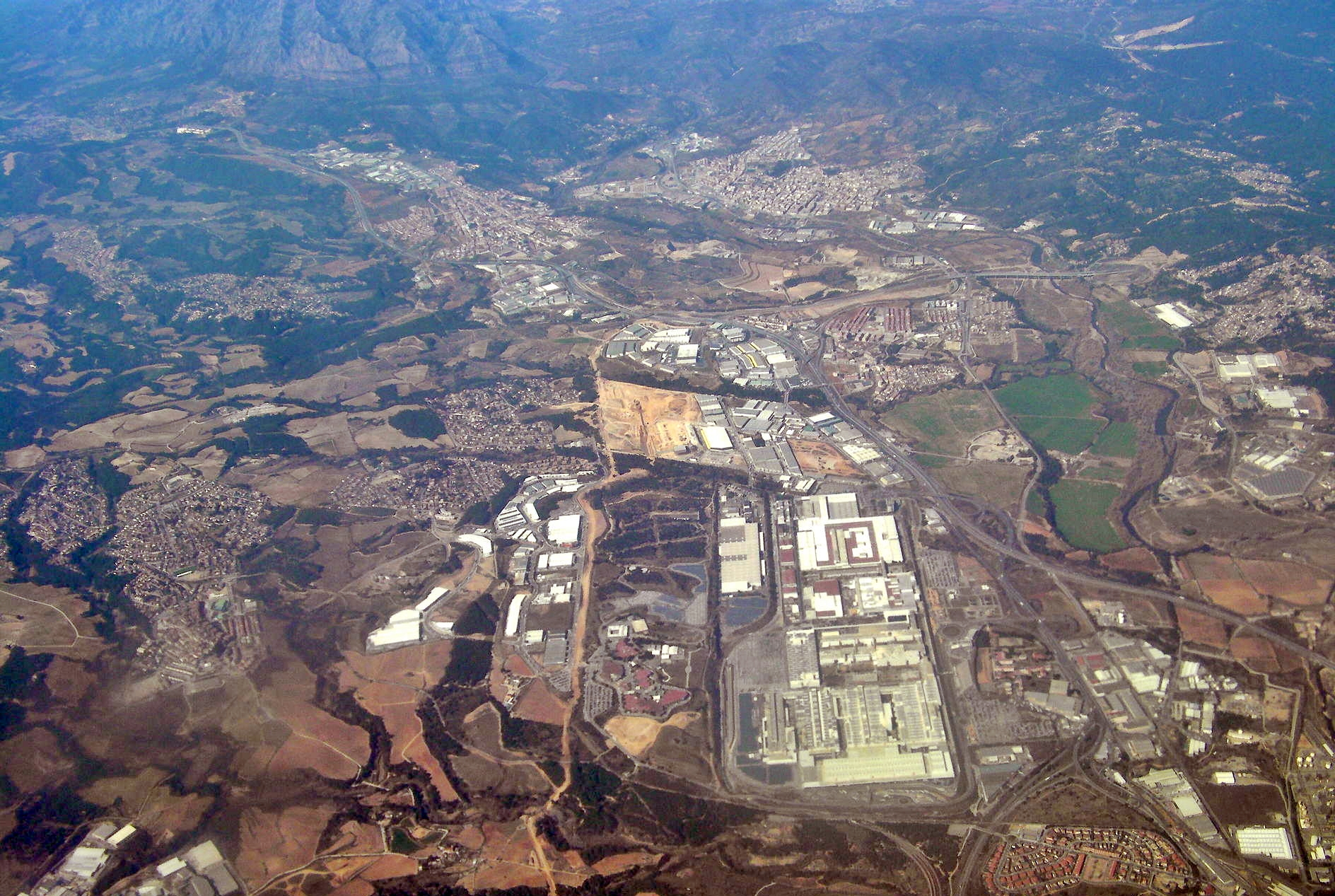 SEAT factory and head office in Martorell, view from an aircraft - March 2012